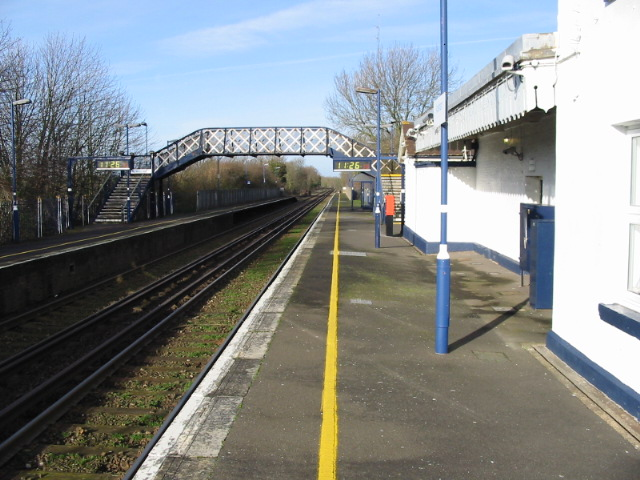 Adisham station, looking NW (London bound)